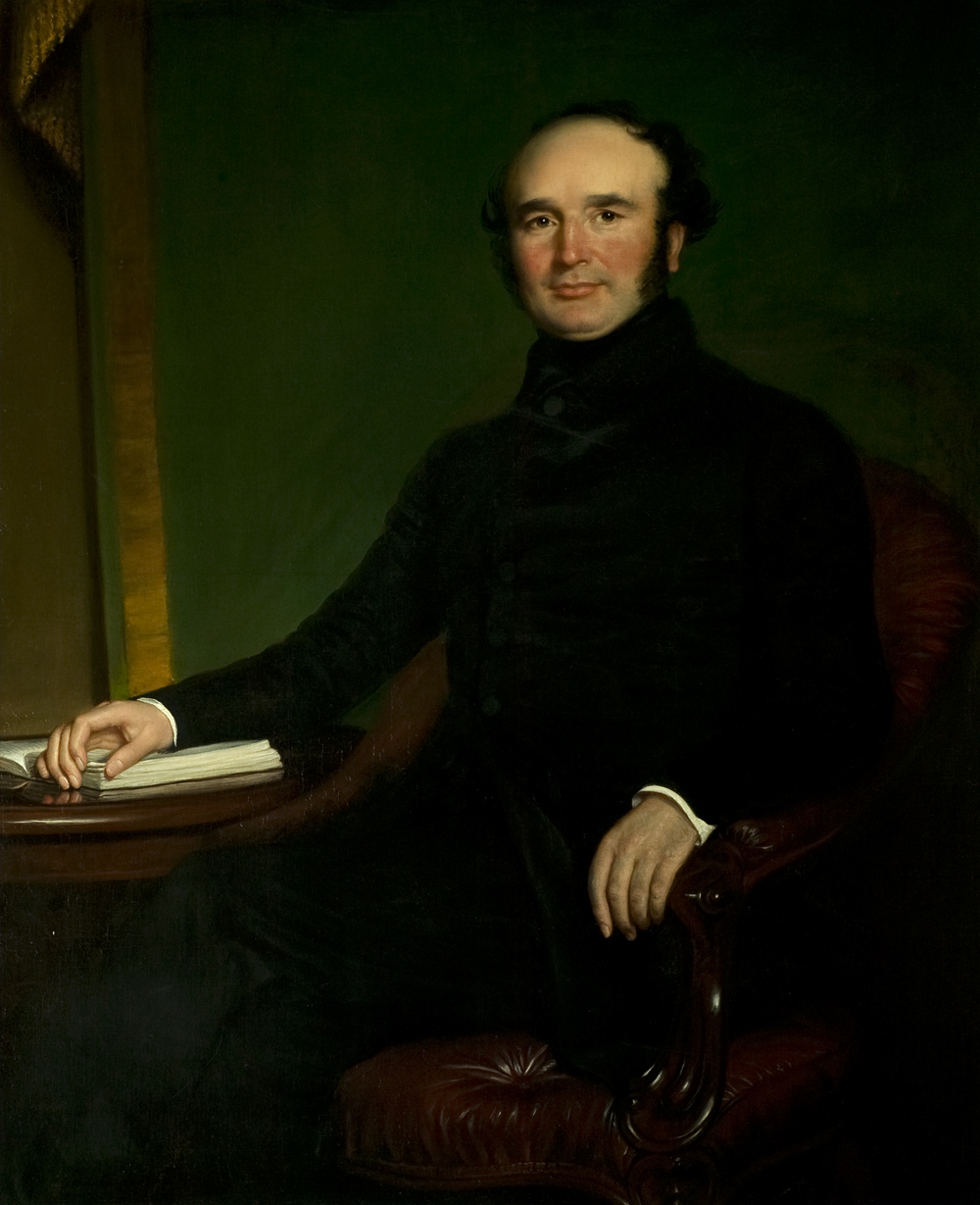 Alderman John Biggs (1801-1871), Mayor of Leicester (1840, 1847 & 1855). A painting by an unknown artist of the British School which hangs in Leicester Town Hall.